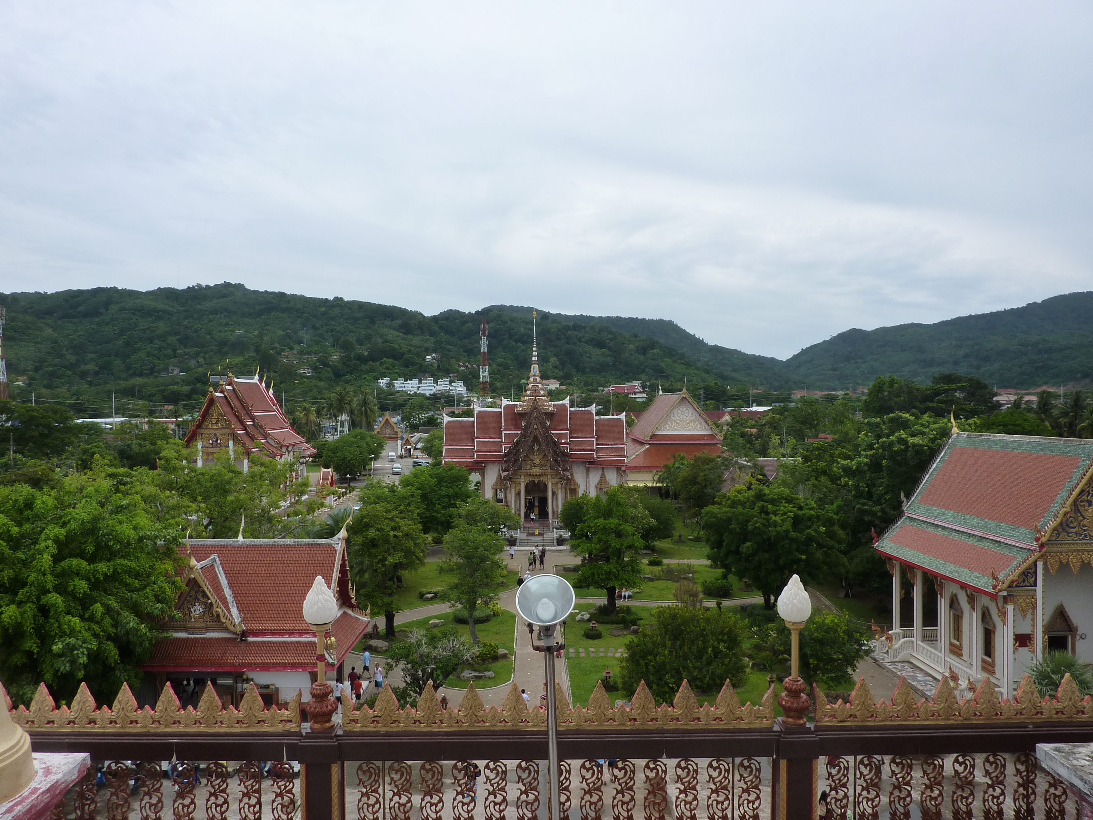 Photo taken from a Buddhist temple in Phuket